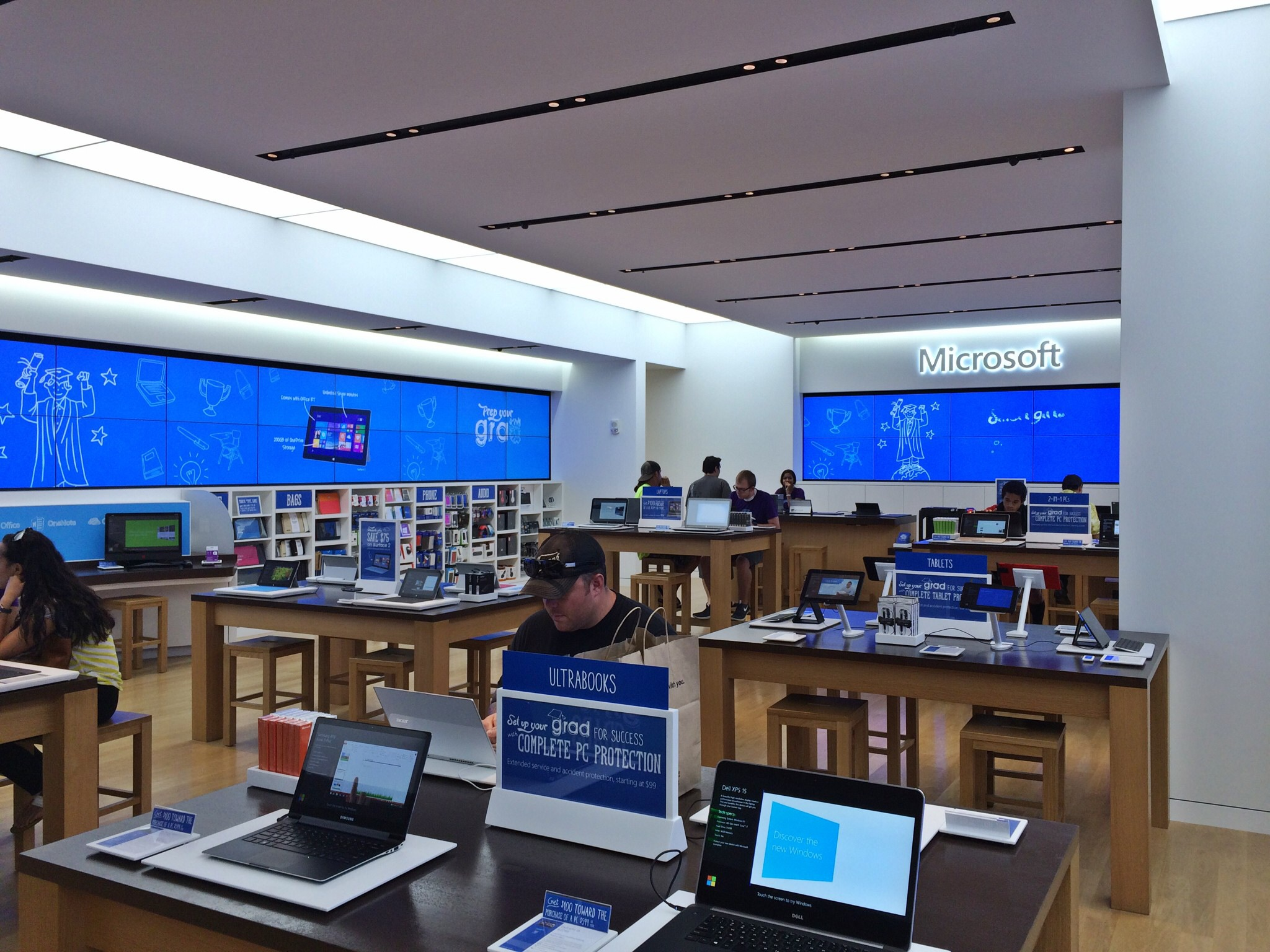 Microsoft store in Honolulu Hawaii